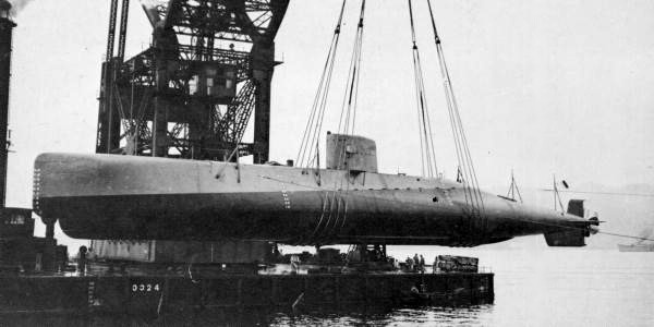 Japanese Submarine No.71 launching at Kure Naval Arsenal.